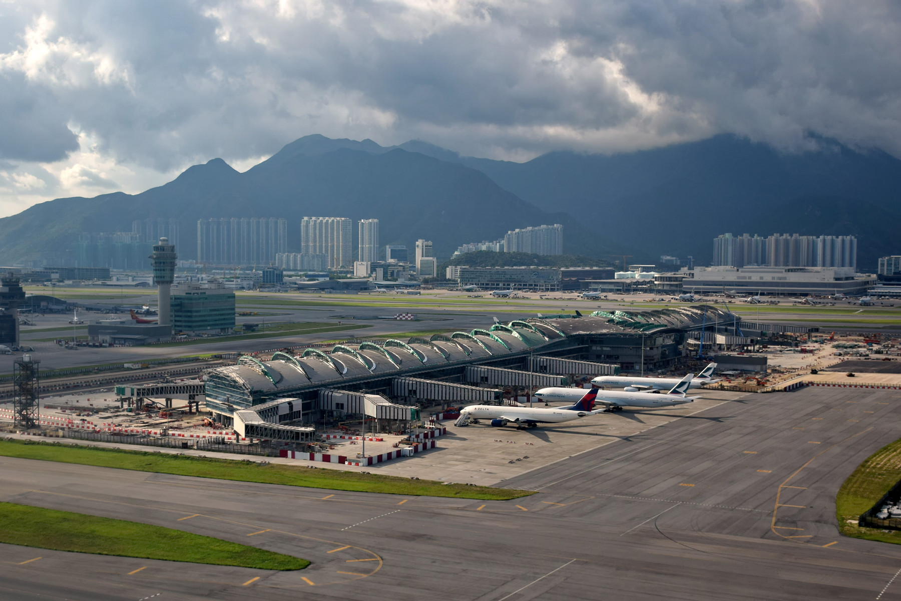 Aerial view of Midfield Concourse, Hong Kong International Airport